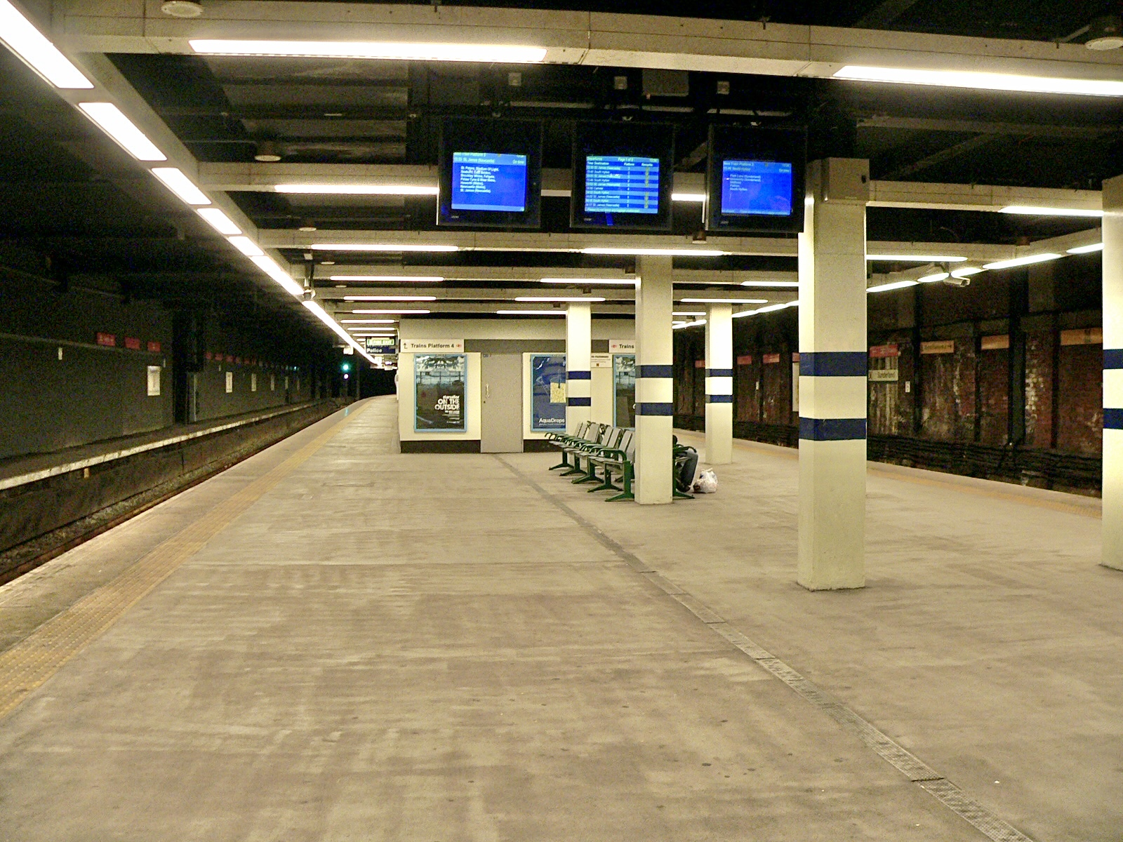 The Tyne and Wear Metro platforms 2 and 3 at Sunderland station. Platforms 1 and 4 for mainline trains are at the far end.